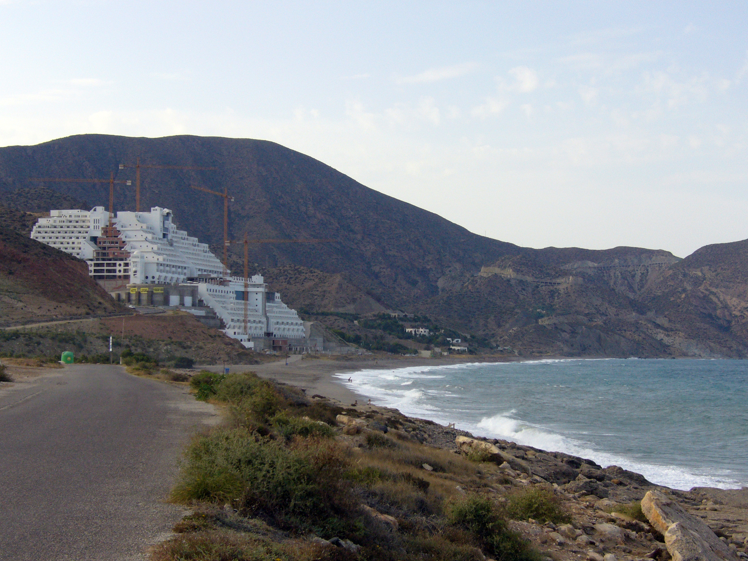 Illegal Hotel "El Algarrobico" in Carboneras (Cabo de Gata - Níjar)